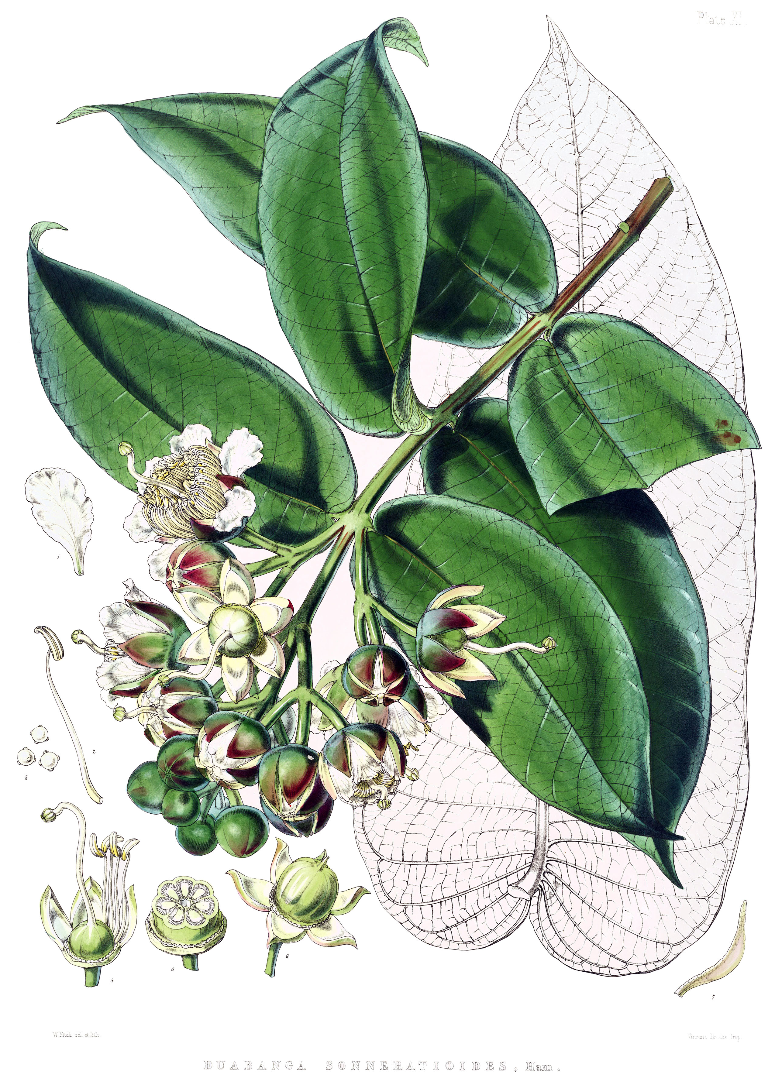 Duabanga sonneratioides syn. Duabanga grandiflora. Original caption: "Plate XI. Fig. 1. Petal. 2. Stamen. 3. Pollen. 4. Flower, with portions of the calyx, the petals, and most of the stamens removed. 5. Transverse section of ovary. 6. Young fruit. 7. Half-ripe seed :—all more or less magnified.